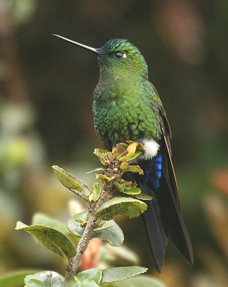 Sapphire-Vented Puffleg (Eriocnemis luciani). "Now there's one undertail that's amazing to look at! ^_^ Yanacocha Reserve, NW Ecuador. 3/8/2007"